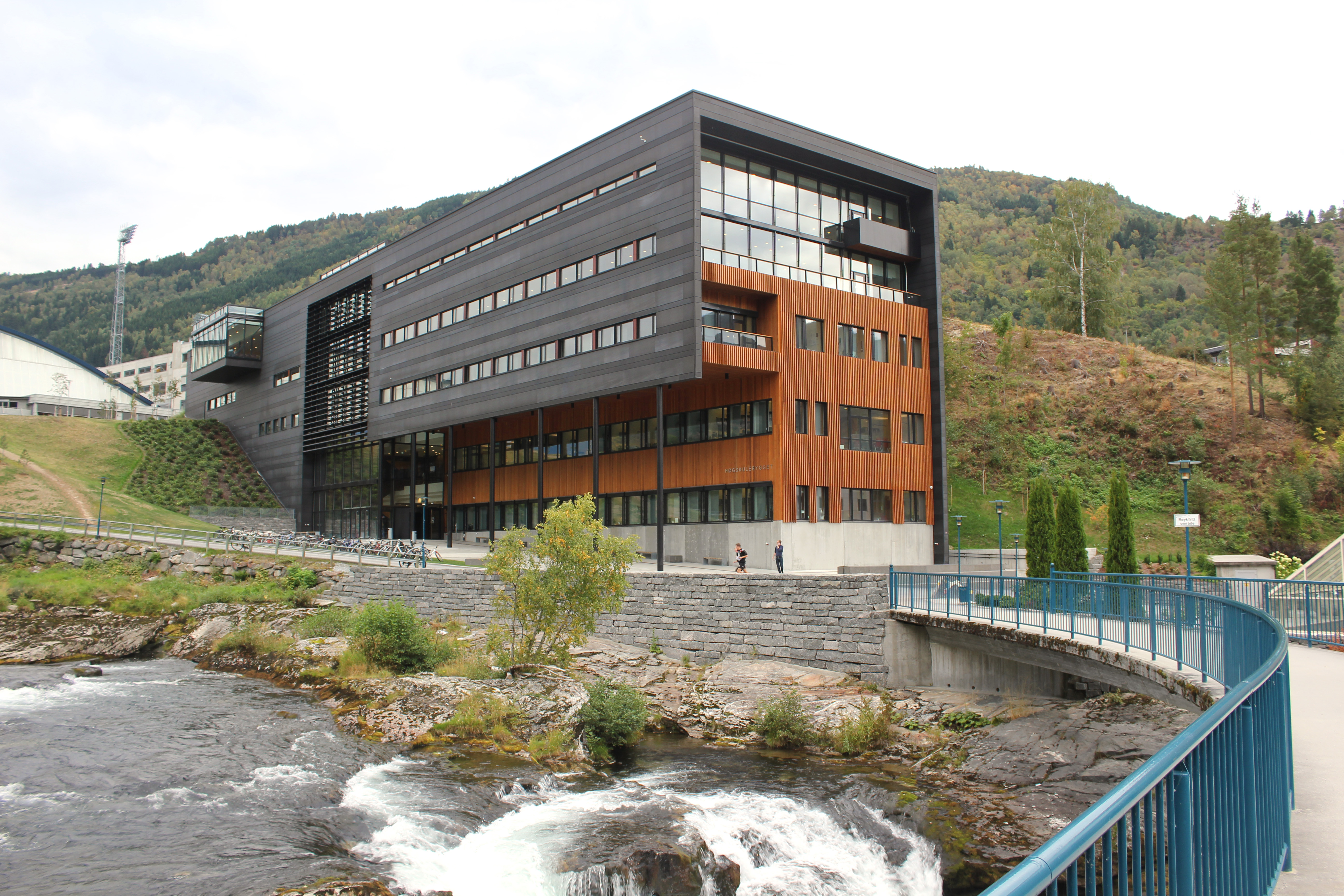 Sogn og Fjordane University College, Norway